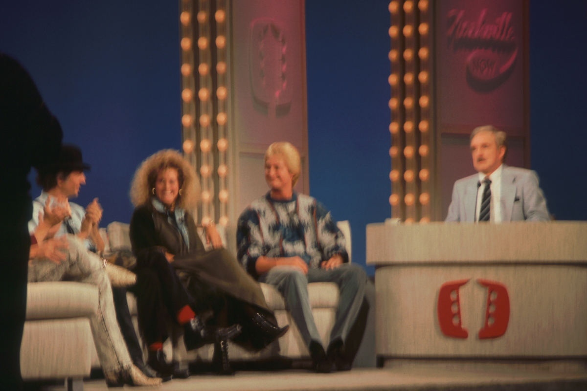 American Television show "Nashville Now" as it was being video taped in Nashville, Tennessee, United States